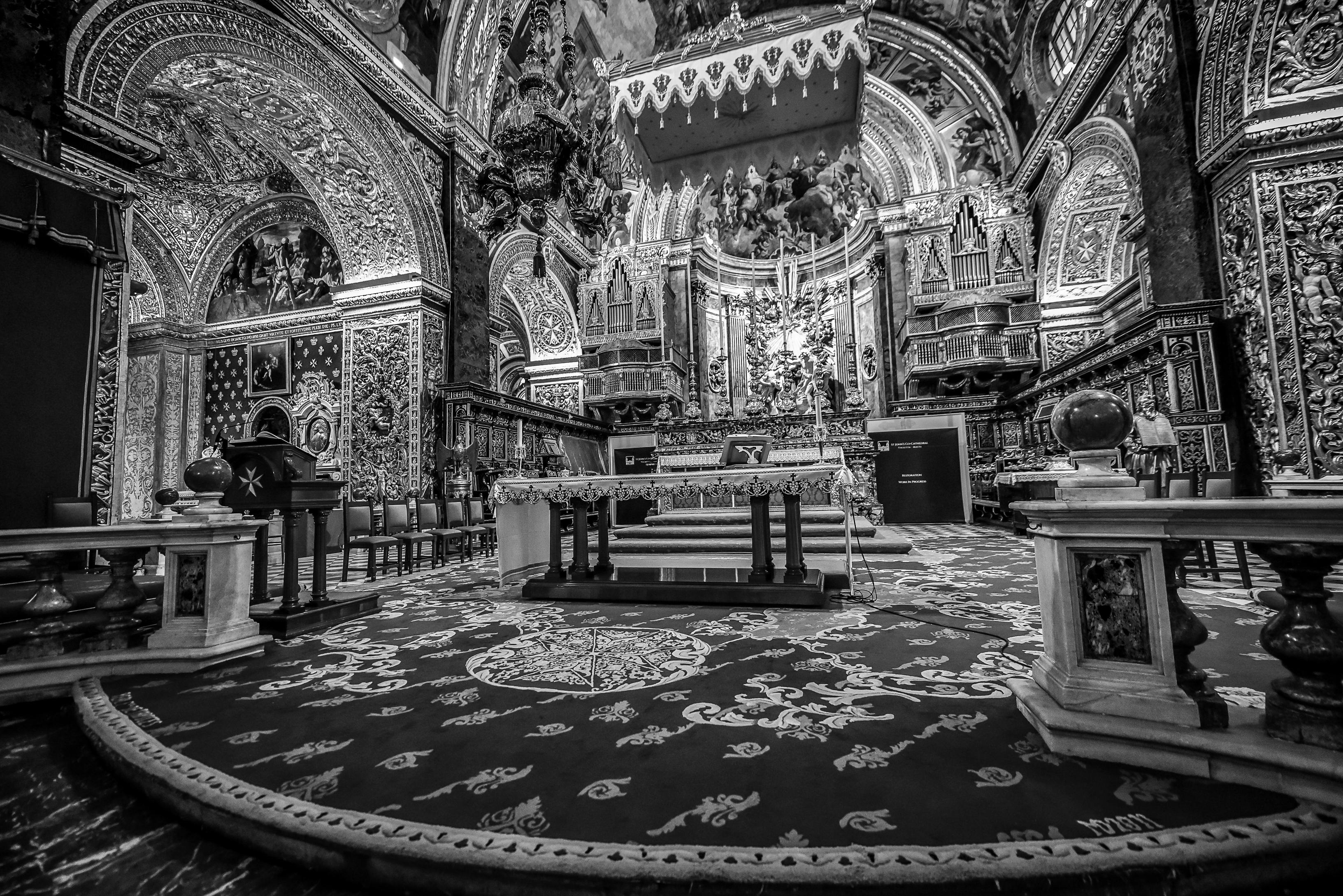 This media is about Maltese cultural property with inventory number 01130.